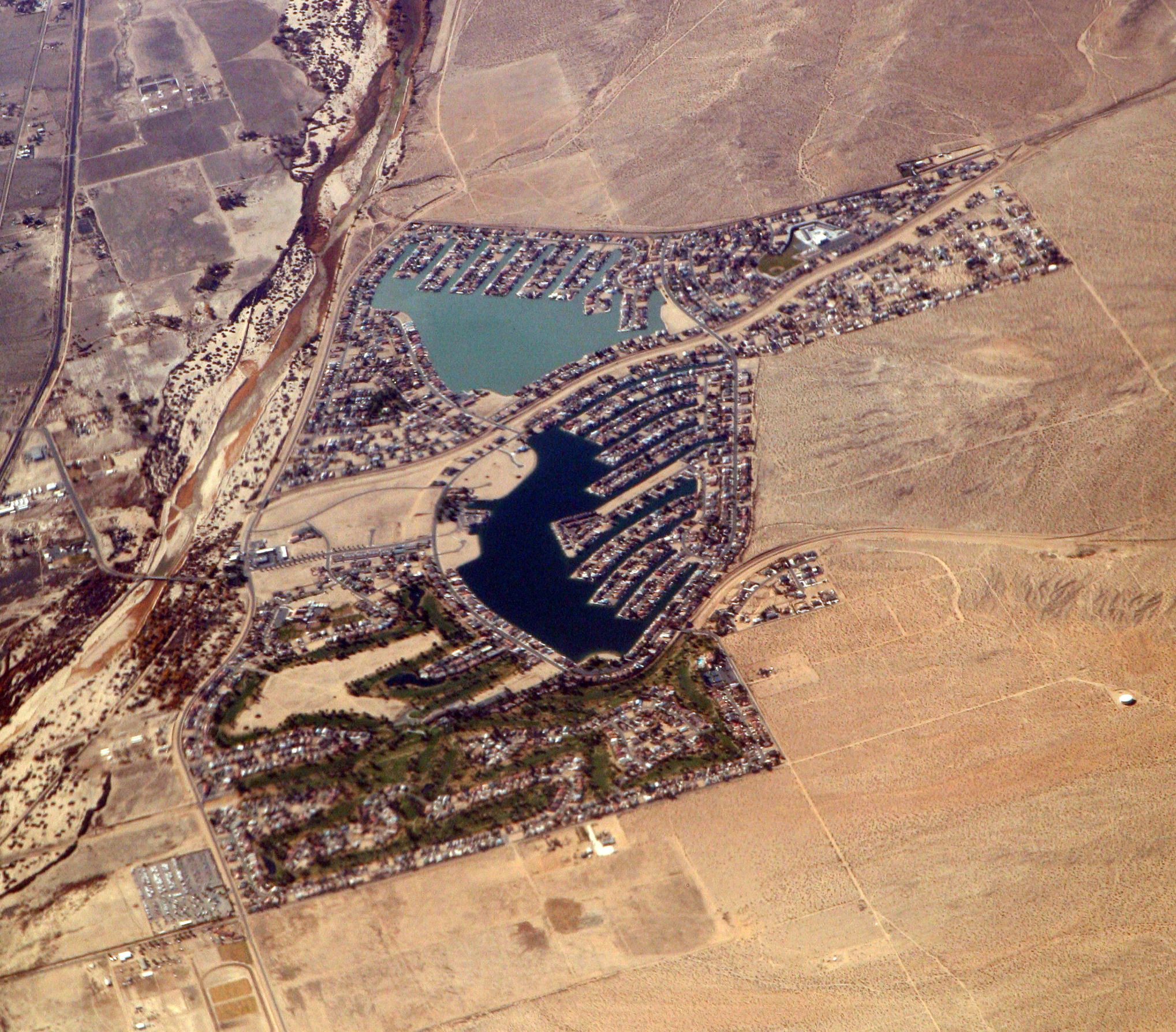 Aerial view of Helendale, also known as Silver Lakes — in San Bernardino County, California. Located in the Mojave Desert on old Route 66, near the Mojave River between Victorville and Barstow.